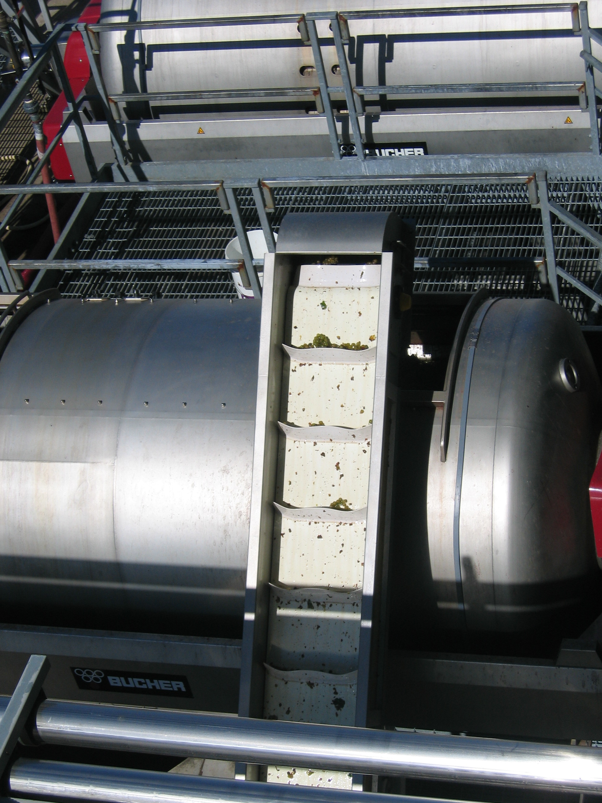 Horizontal wine press with conveyor belt for grapes, Jackson-Triggs winery, Niagara, Ontario, Canada